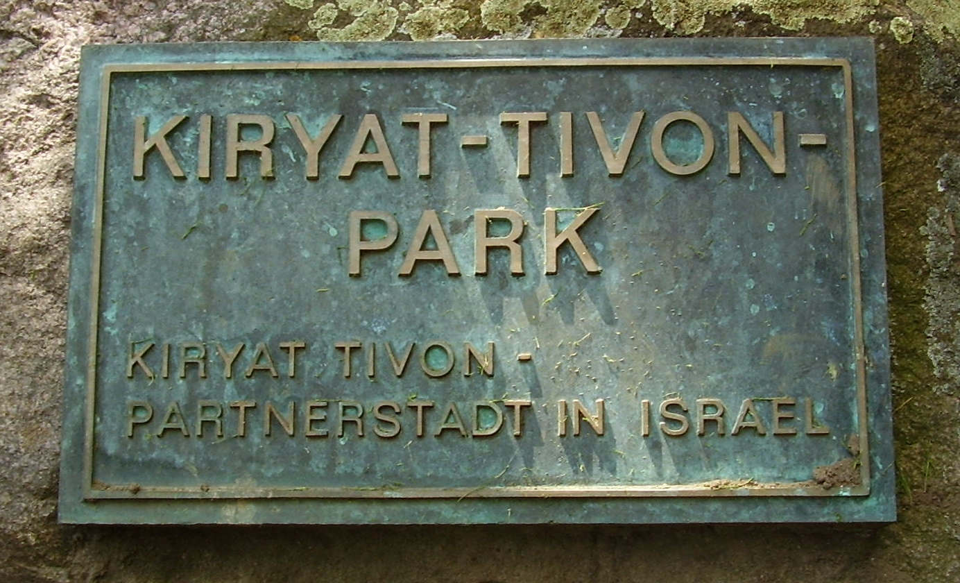 Braunschweig (City) — Kiryat-Tivon-Park — Signboard